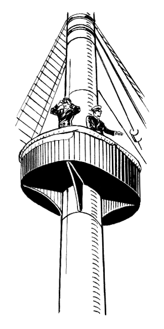 line art example of a crow's nest.